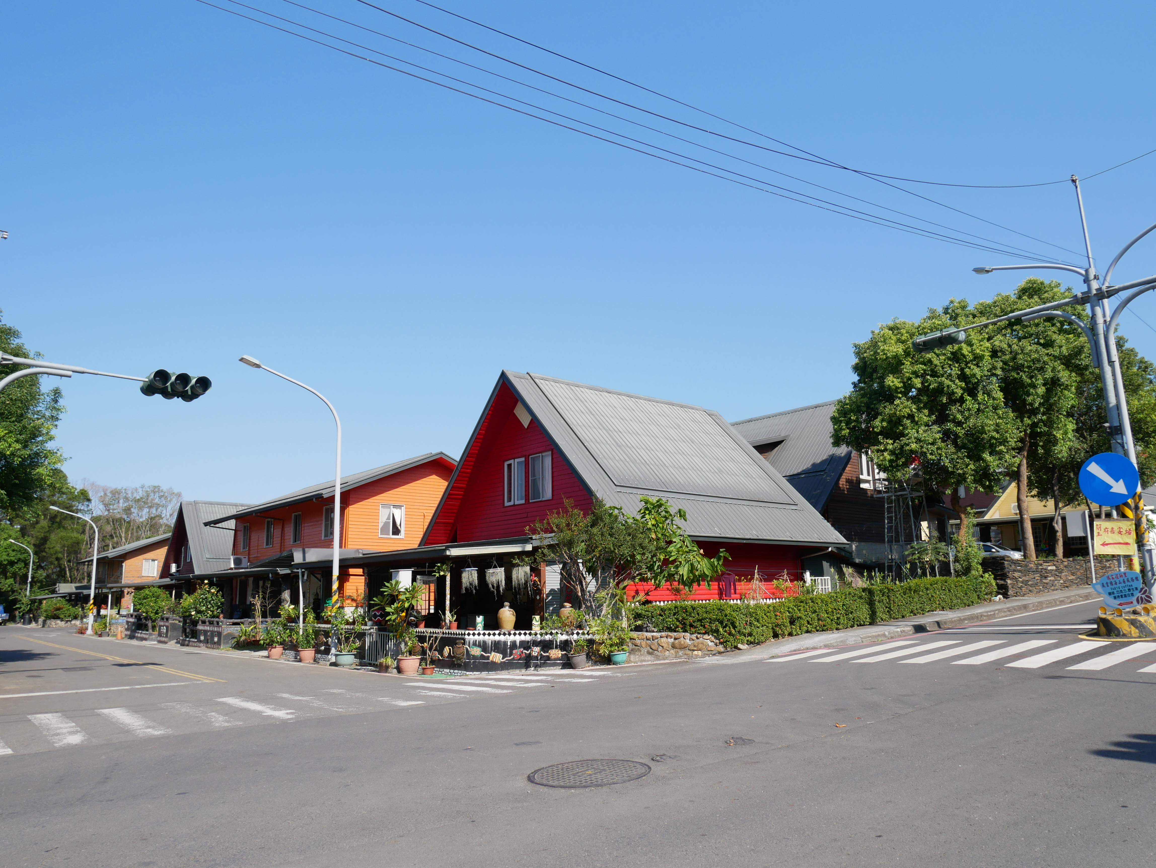 屏東縣霧臺鄉好茶村永久屋，屏東縣霧臺鄉好茶村